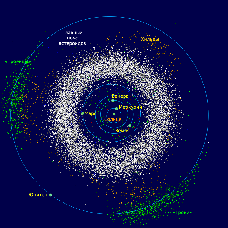 The inner Solar System, from the Sun to Jupiter. Also includes the Asteroid belt (the white donut-shaped cloud), the Hildas (the orange "triangle" just inside the orbit of Jupiter) and the Jovian Trojan's (green). The group that leads Jupiter are called the "Greeks" and the trailing group are called the "Trojans" (Murray and Dermott, Solar System Dynamics, pg. 107). This image is based on data found in the JPL DE-405 ephemeris, and the Minor Planet Center database of asteroids (etc) published 2006 Jul 6. The image is looking down on the ecliptic plane as would have been seen on 2006 August 14. It was rendered by custom software written for Wikipedia.